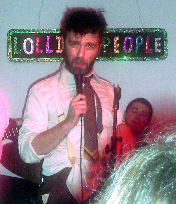 Friendly Rich of The Lollipop People playing at Green Room in Montreal, Canada, for Pop Montreal festival.